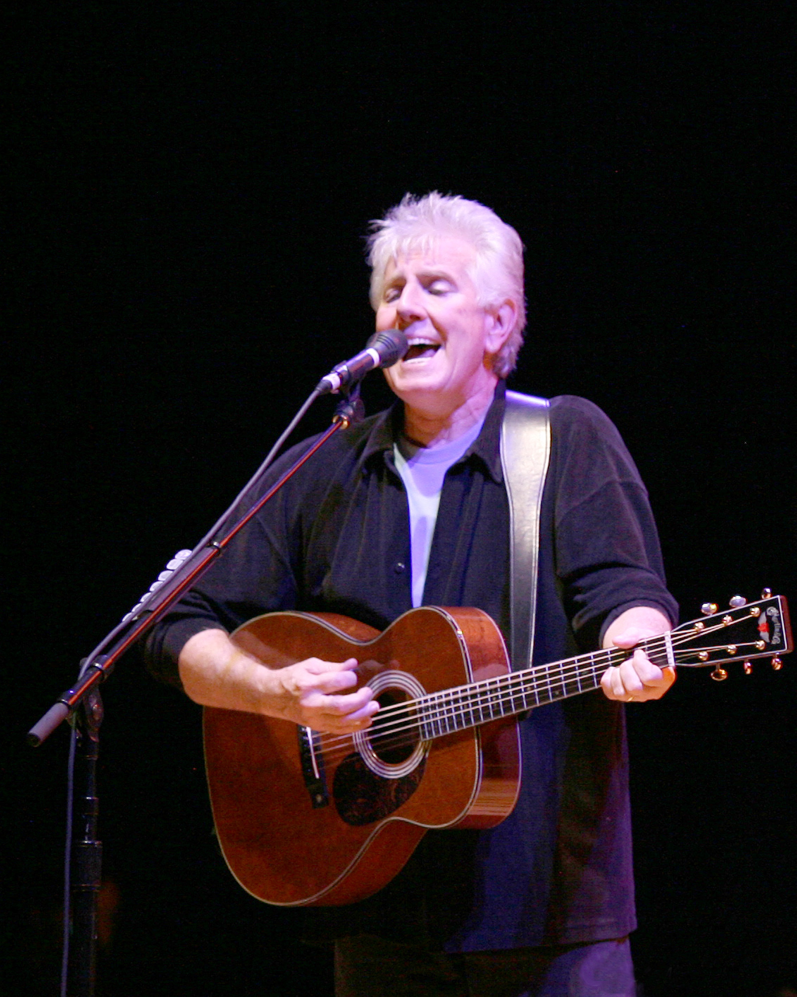 Graham Nash performing in 2006 as part of Crosby, Stills, Nash & Young